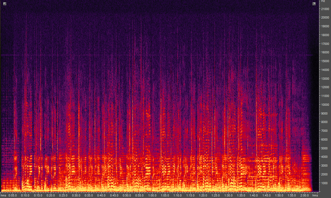 spectral analyse of an uncompressed audio file